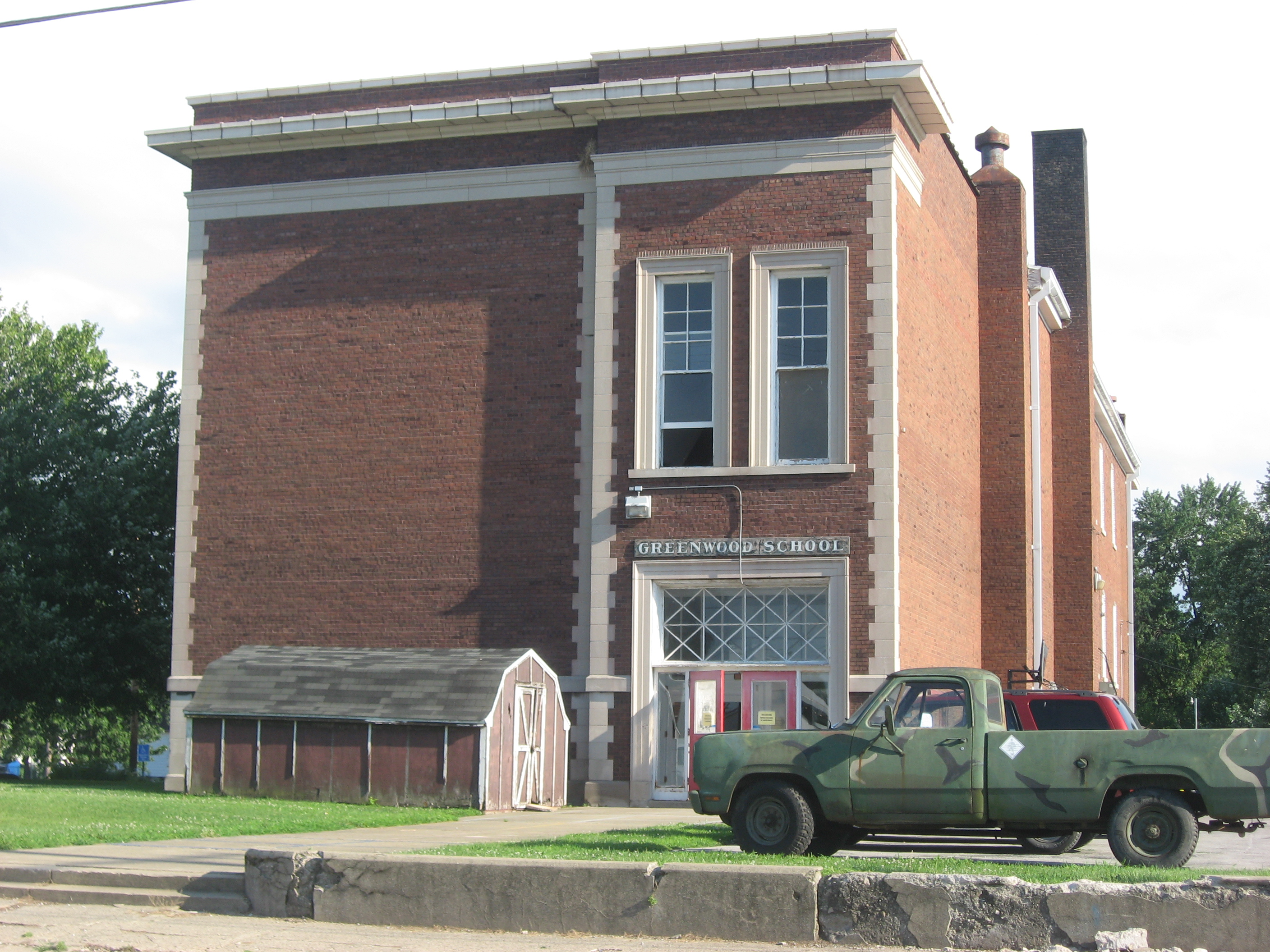 Northern and western sides of the Greenwood Elementary School, located at 145 E. Voorhees Avenue in Terre Haute, Indiana, United States. Built in 1908, it is listed on the National Register of Historic Places.